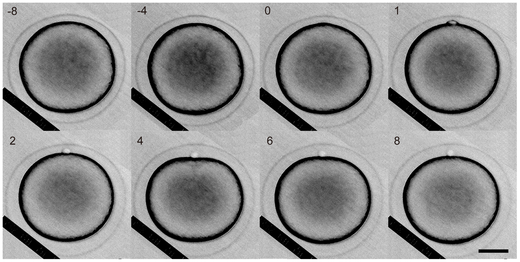 starfish, Asterina pectinifera, polar body formation (bulging) from an oocyte The top side is the animal pole. Numbers shown are the time after the onset of the bulge formation. Scale bar, 50 µm.